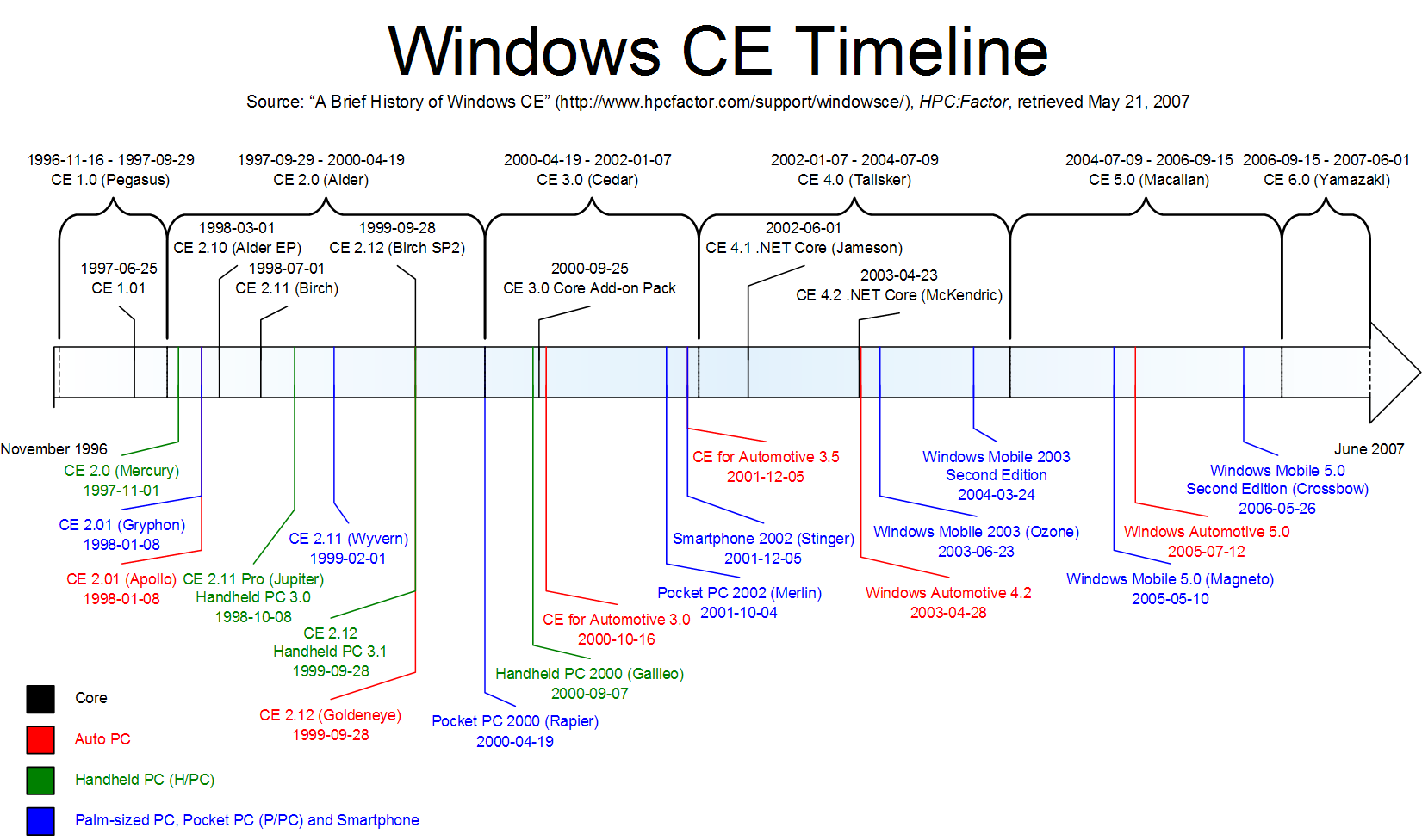 Timeline of Windows CE releases